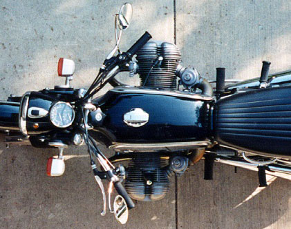 R75/5 boxer engine Photo © by Jeff Dean